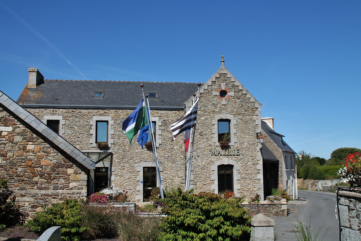 La mairie de Pommerit-Jaudy.